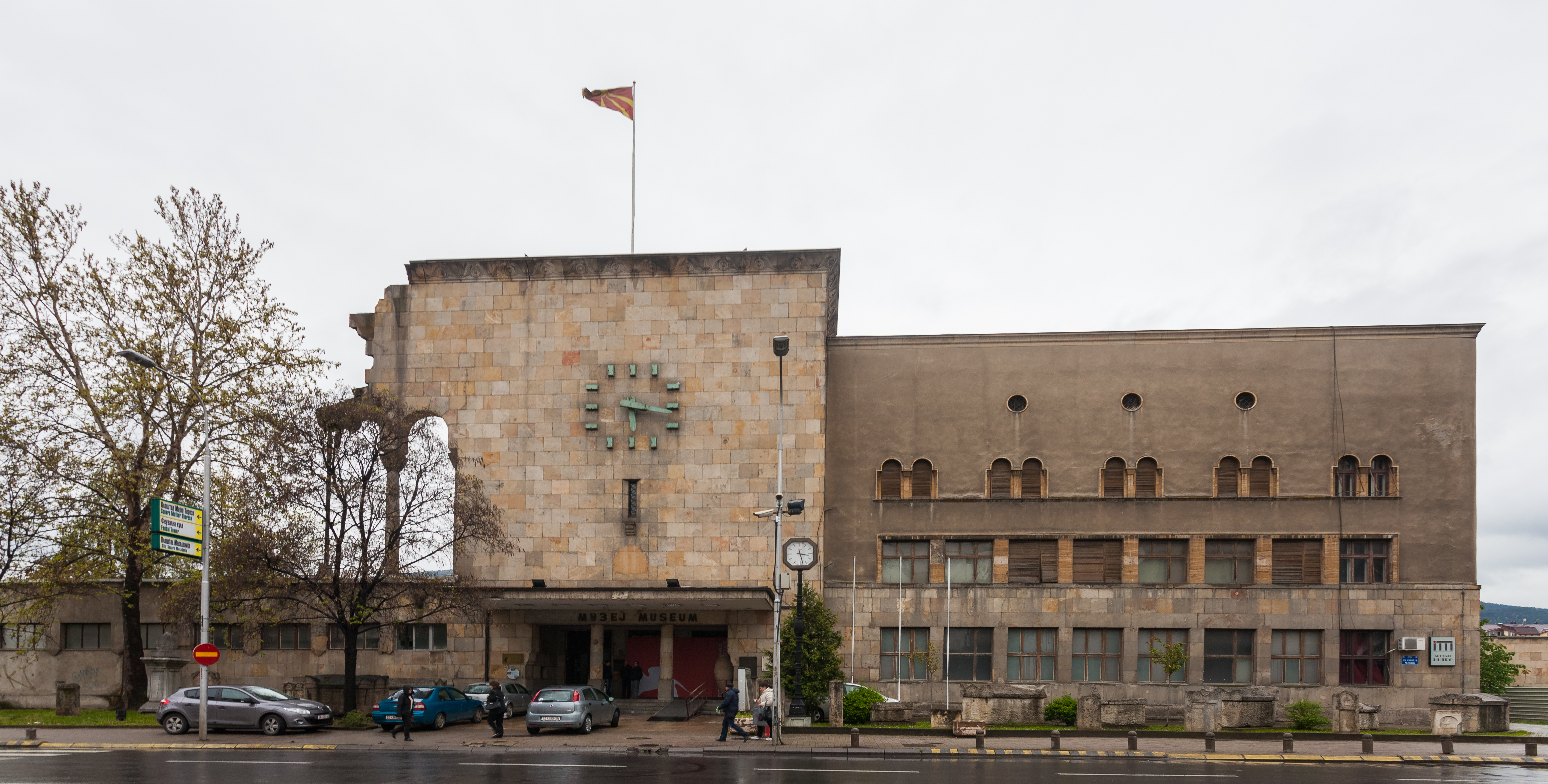 Antigua estación de ferrocarril (hoy Museo de la Ciudad), Skopie, Macedonia